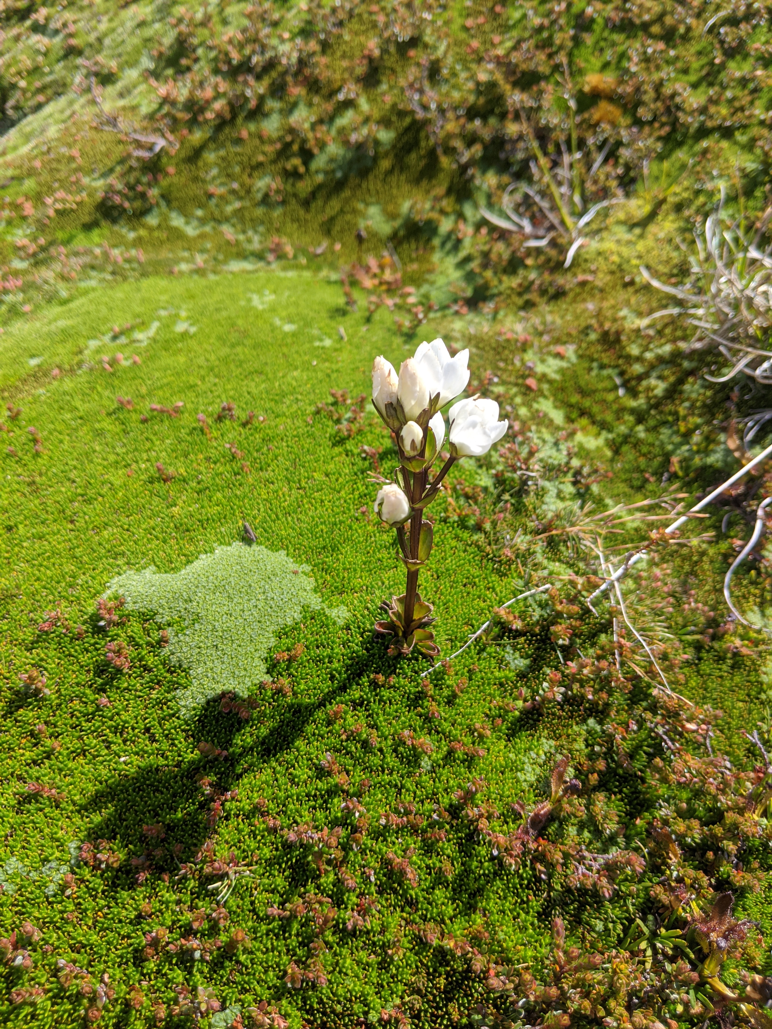 C. diemensis in buttongrass